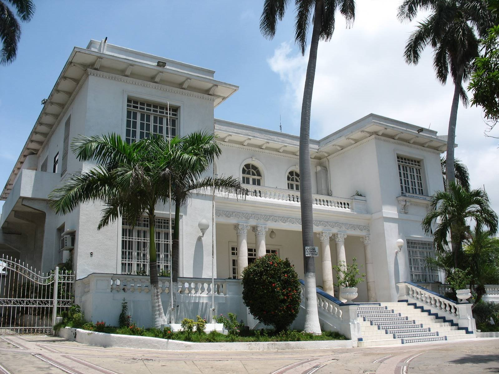 Barranquilla republican mansion